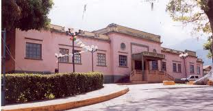 IUTET